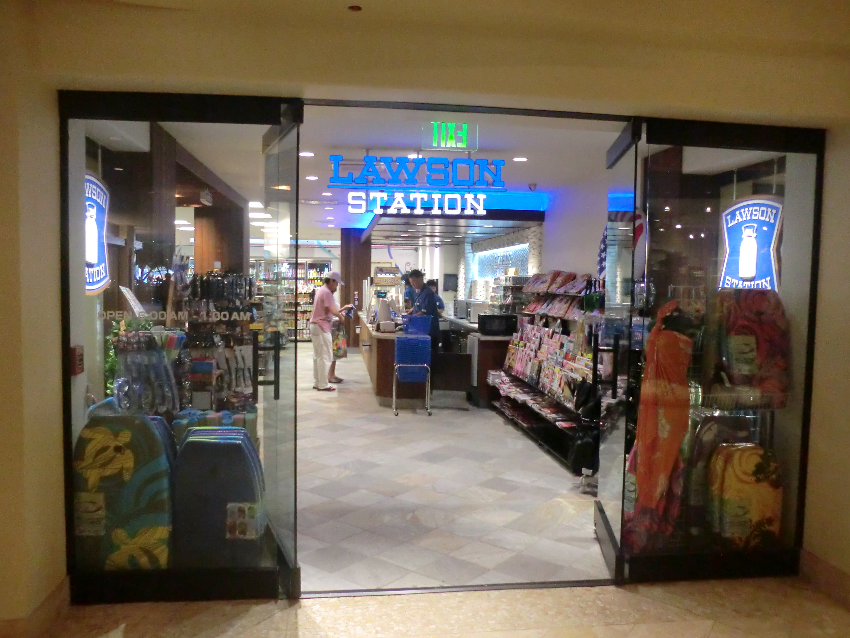 Lawson(Japanese convenience store) at Sheraton Waikiki in Honolulu,Hawaii,United States.